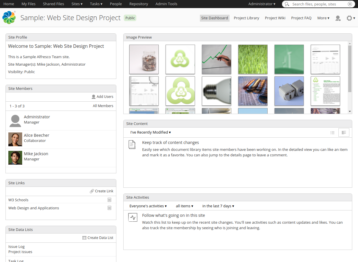 Site dashboard Screenshot of open source software (LGPLv3)